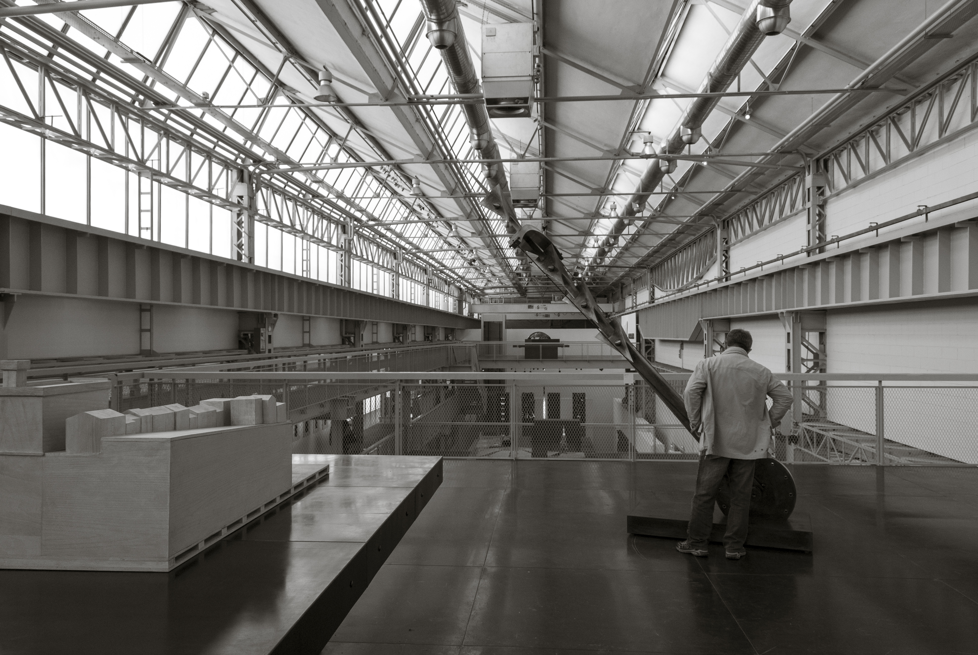 The Foundation Pomodoro (founded in 1995 by Arnaldo Pomodoro) is a place of study and discussion around the important themes and great figures of the contemporary avant-garde. It acts as a real cultural center, offering exhibitions, meetings, conferences, book presentations and concerts., Zona Tortona, Milan – Italy.